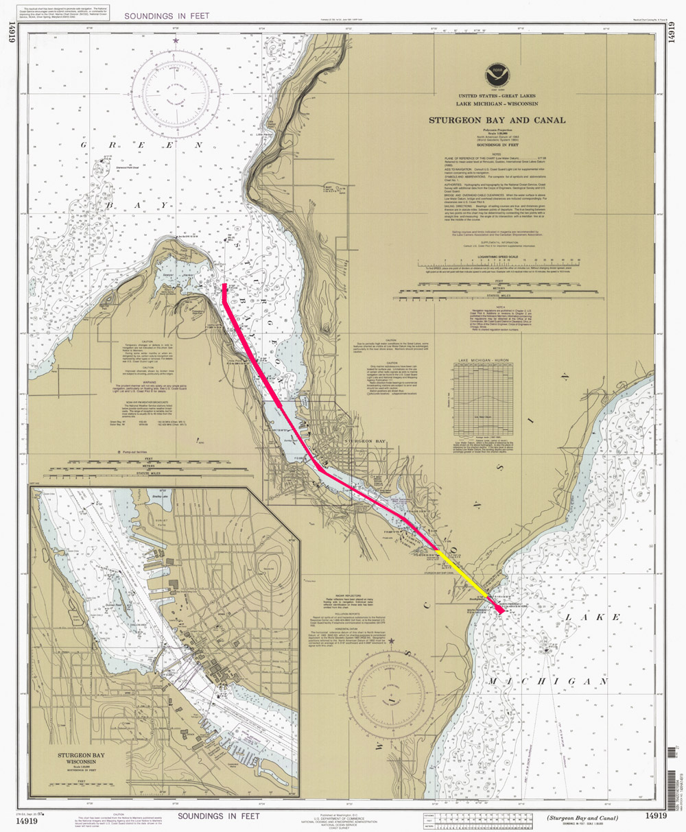 Modified from an NOAA map (public domain), available through the NOAA website: [dead link]